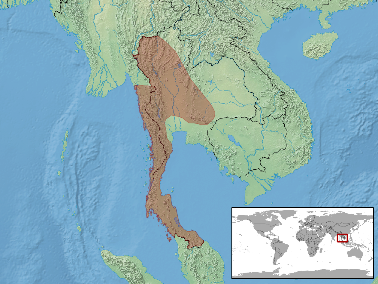 geographic distribution of Gongylosoma scripta (Native: Thailand / Possibly extinct: Myanmar)